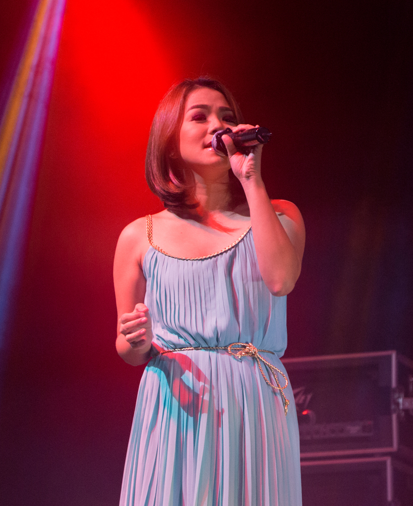 Juris Fernandez - Lim performing at Downtown East, Singapore on November 10, 2013.